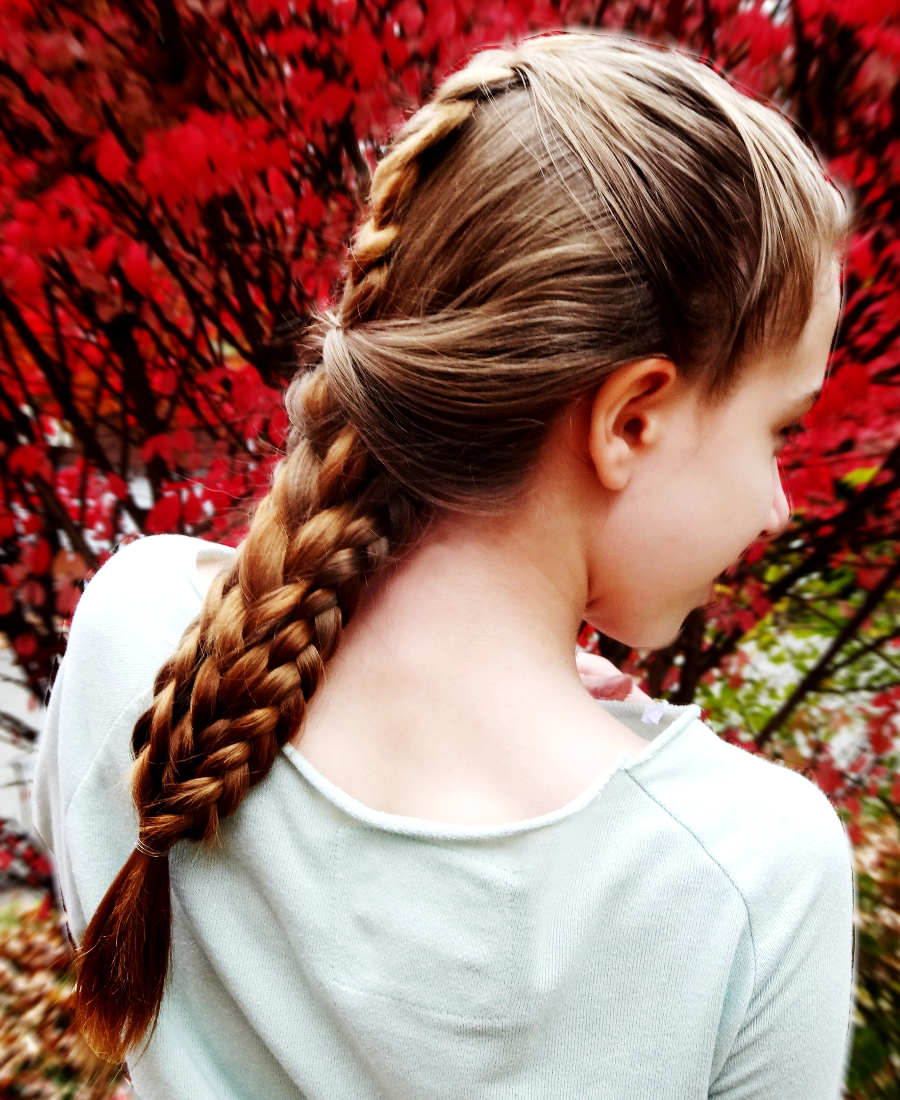 Braided hairdo, consisting out of a French braid (top), a couple of stitches of a fishtail braid (base of the hanging braid), a 3-stranded English braid with feathers that are incorporated into 2 half Dutch braids